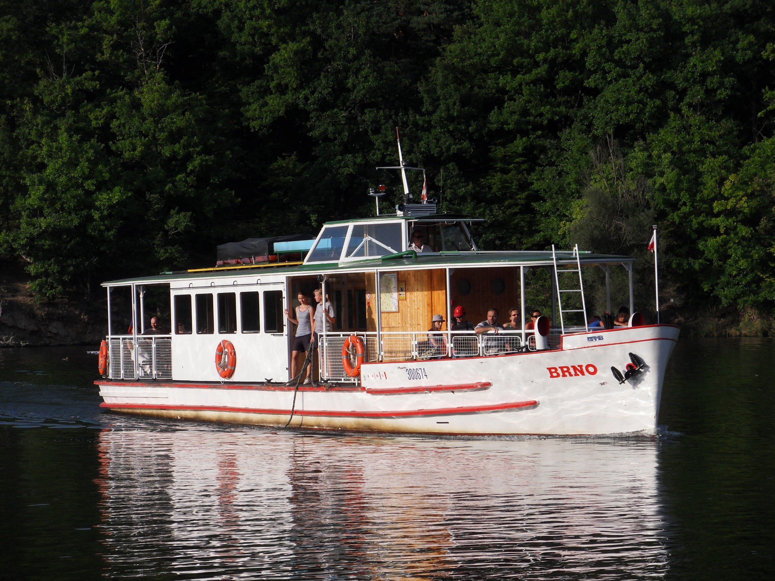 Brno ship at Brno Reservoir, Brno, Czech Republic